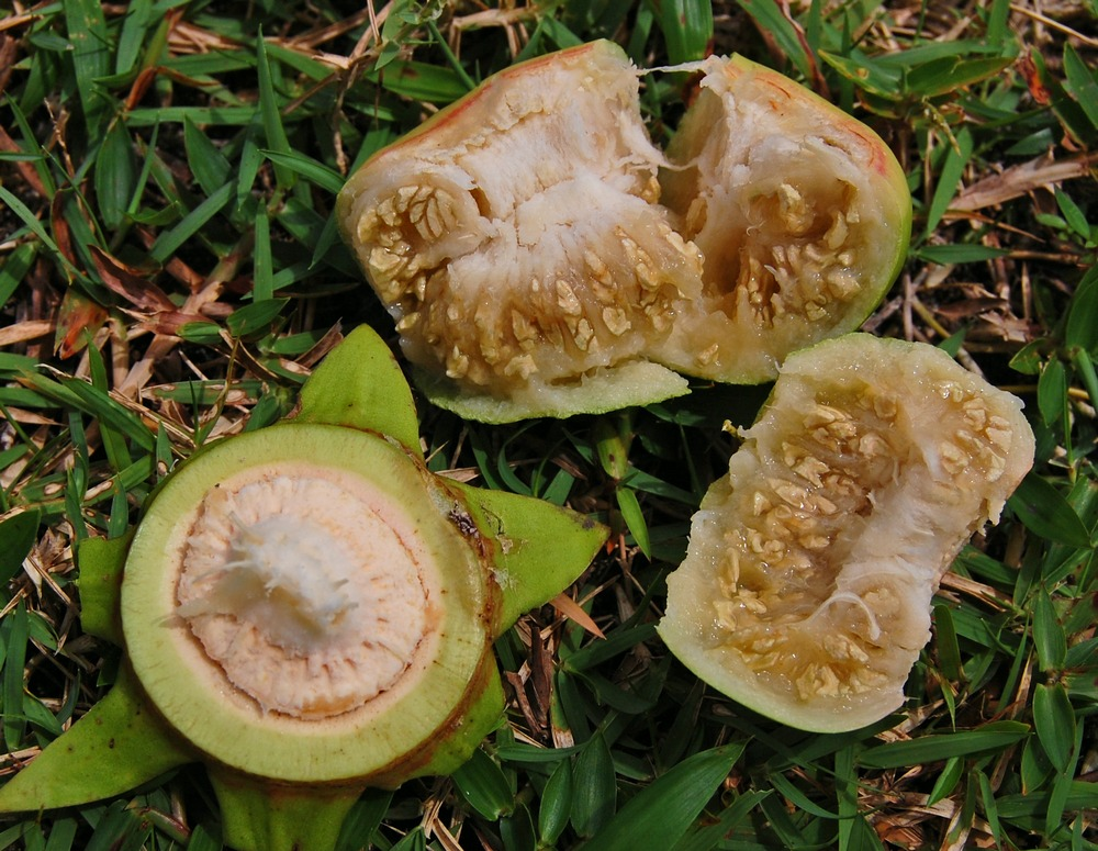 Sonneratia caseolaris, opened fruit. From Labuan Bakti, Simeulue, Indonesia.